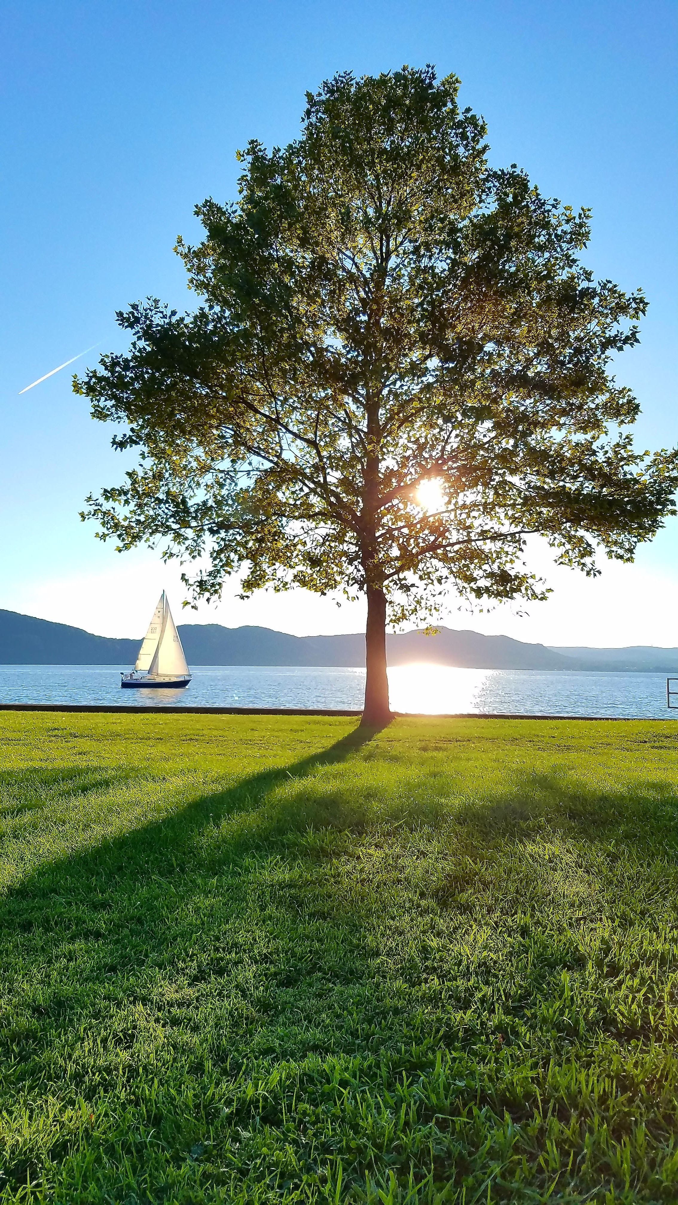 Croton Point Park tree and sailboat, August 2016